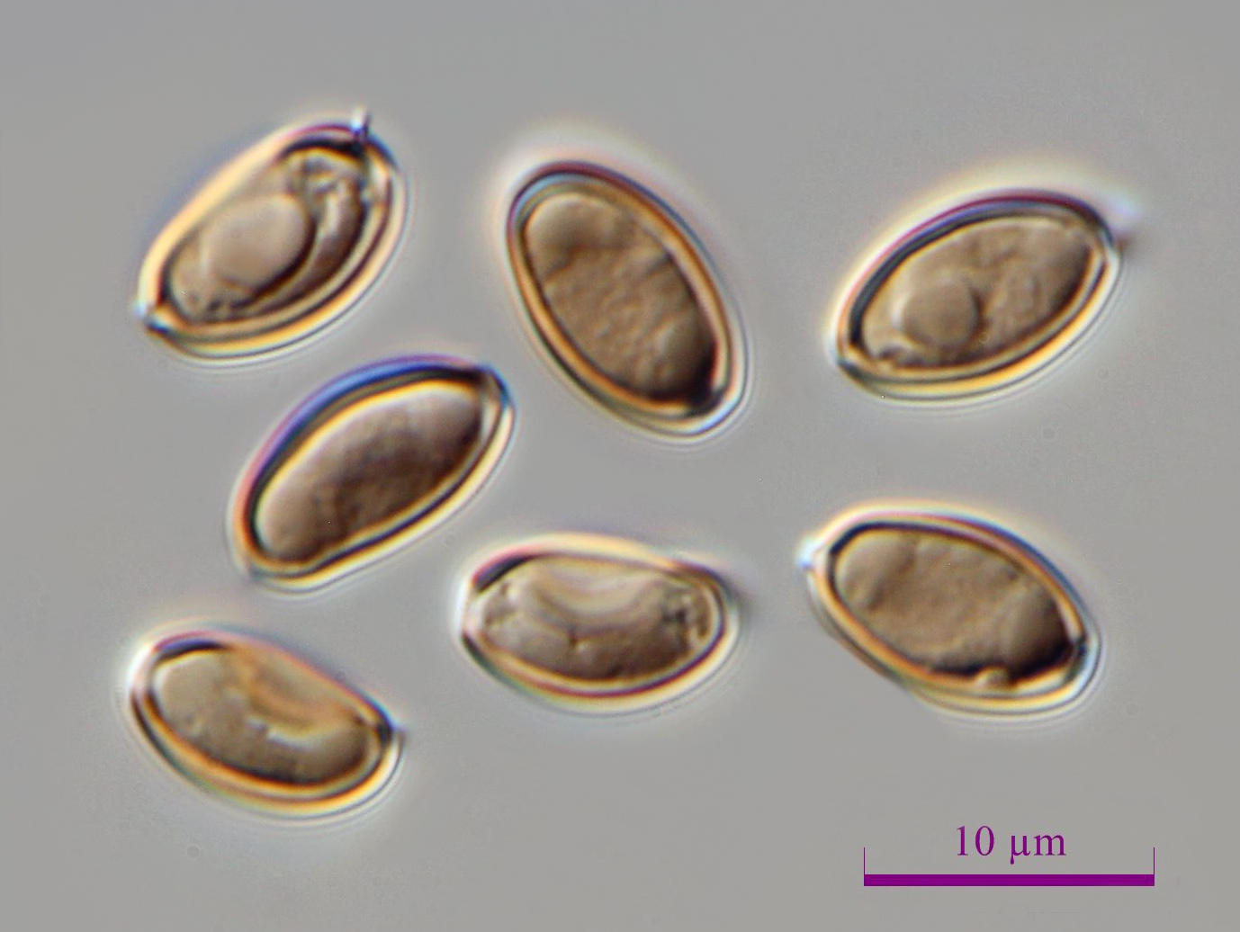 Psilocybe baeocystis spores 1000x with DIC illumination